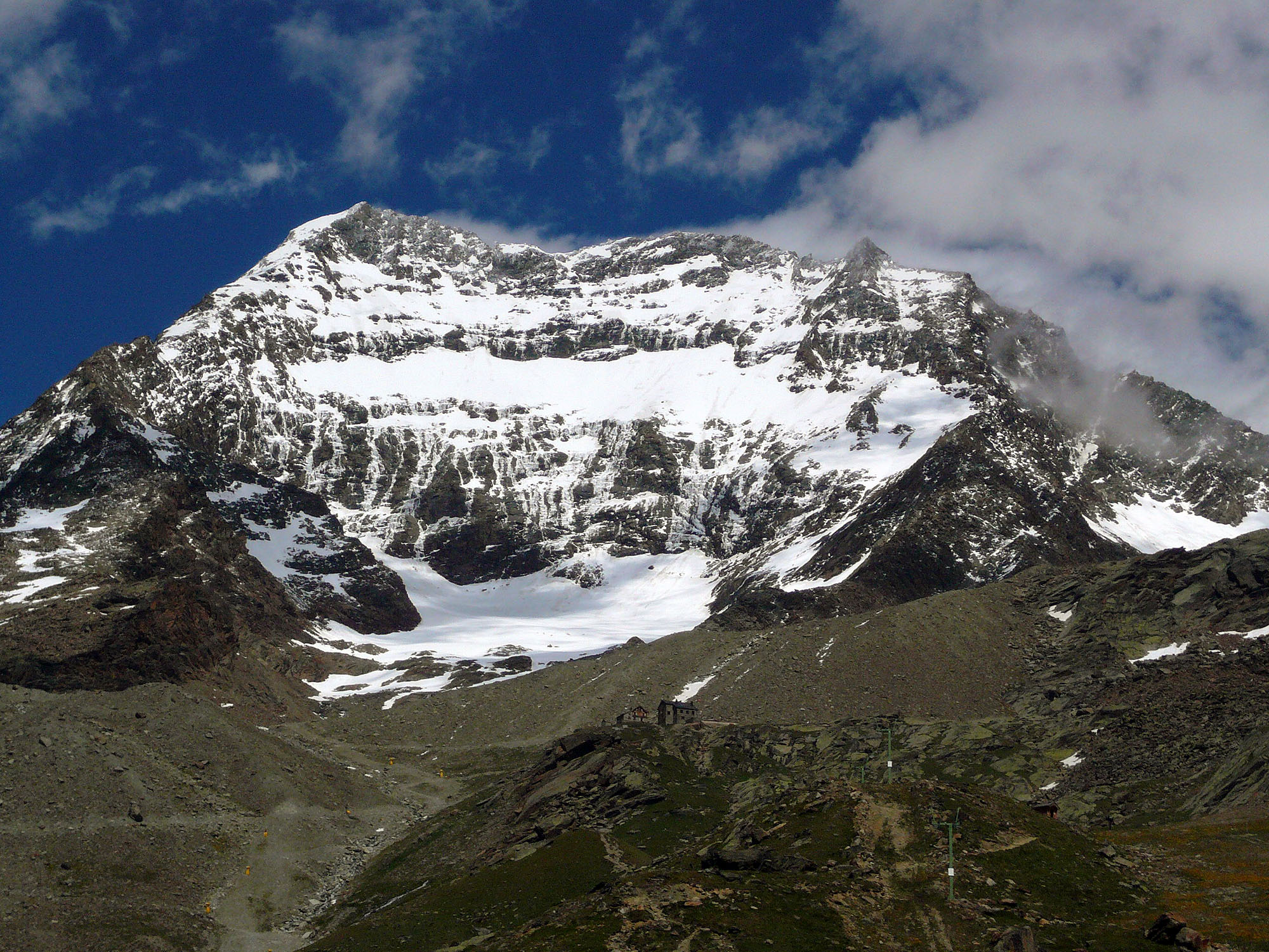 The west face of the Lagginhorn (Valais)